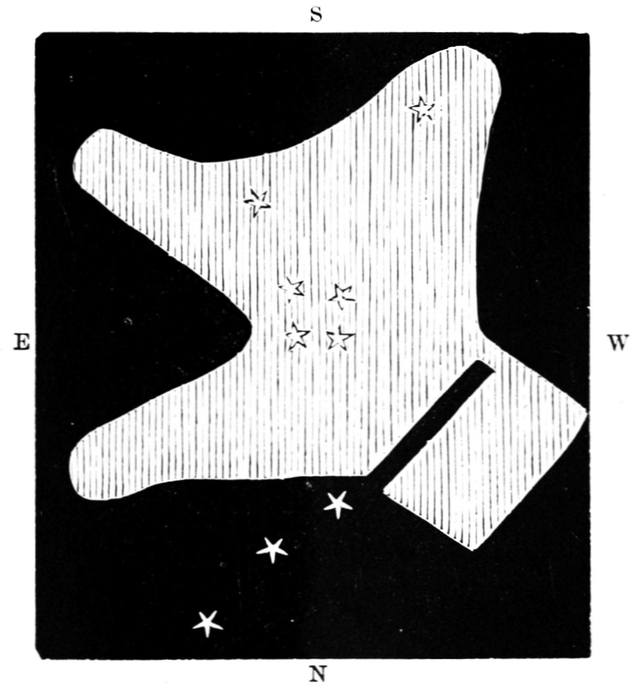 Nebula orionis as depicted by Guillaume Le Gentil in 1758